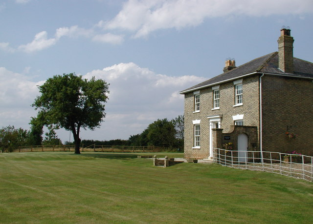 Etherdwick Grange, Etherdwick in Holderness, East Riding of Yorkshire, England.The name Etherdwick is thought to be an Anglo-Scandinavian hybrid meaning 'Ethelred's dairy farm'. The Etherdwick estate was once owned by the abolitionist William Wilberforce who died in 1833. His son (also called William) sold the 165 acre estate to Robert Raikes in 1836, three years after his father's death.